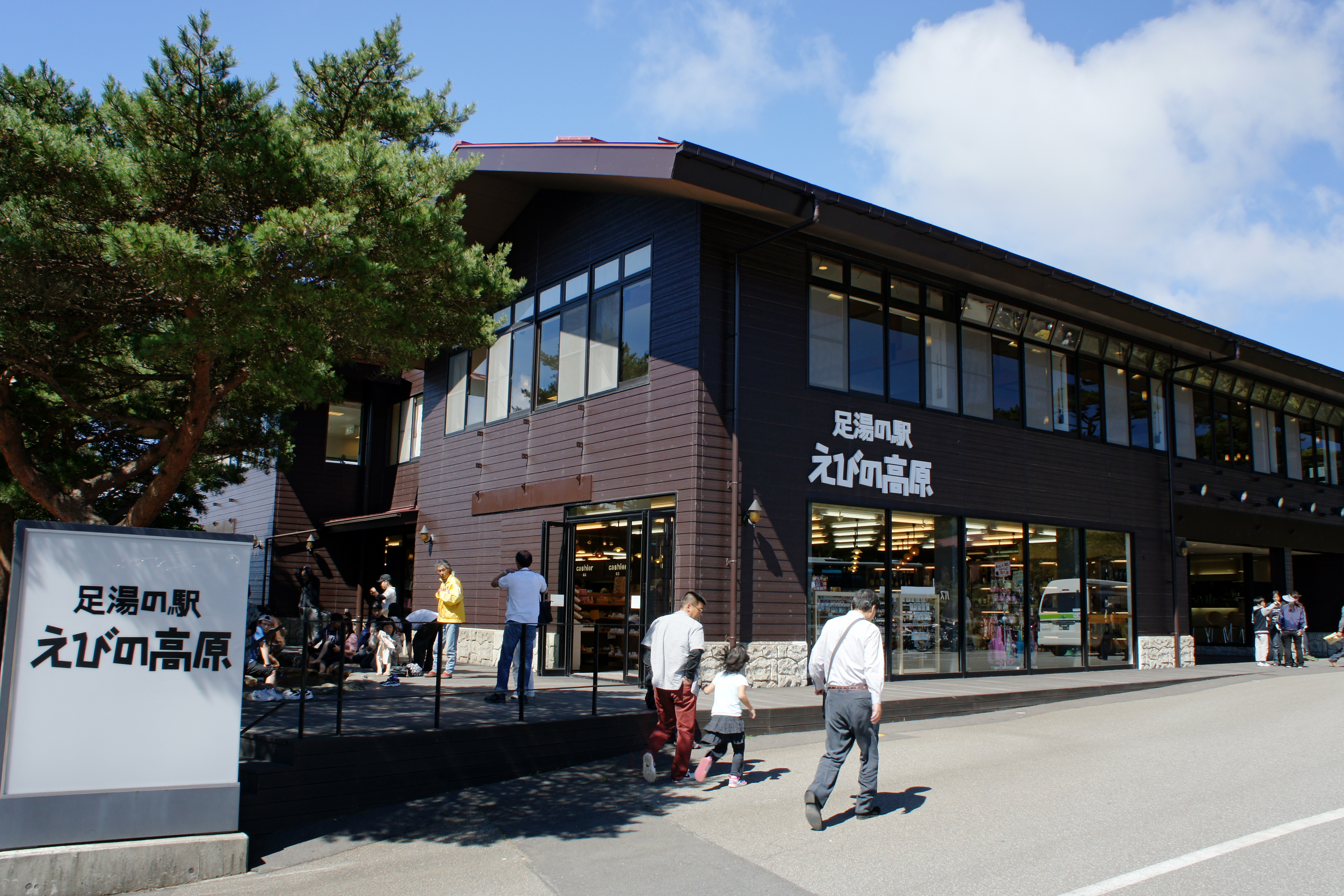 Ebin Plateau in Ebino, Miyazaki prefecture, Japan.